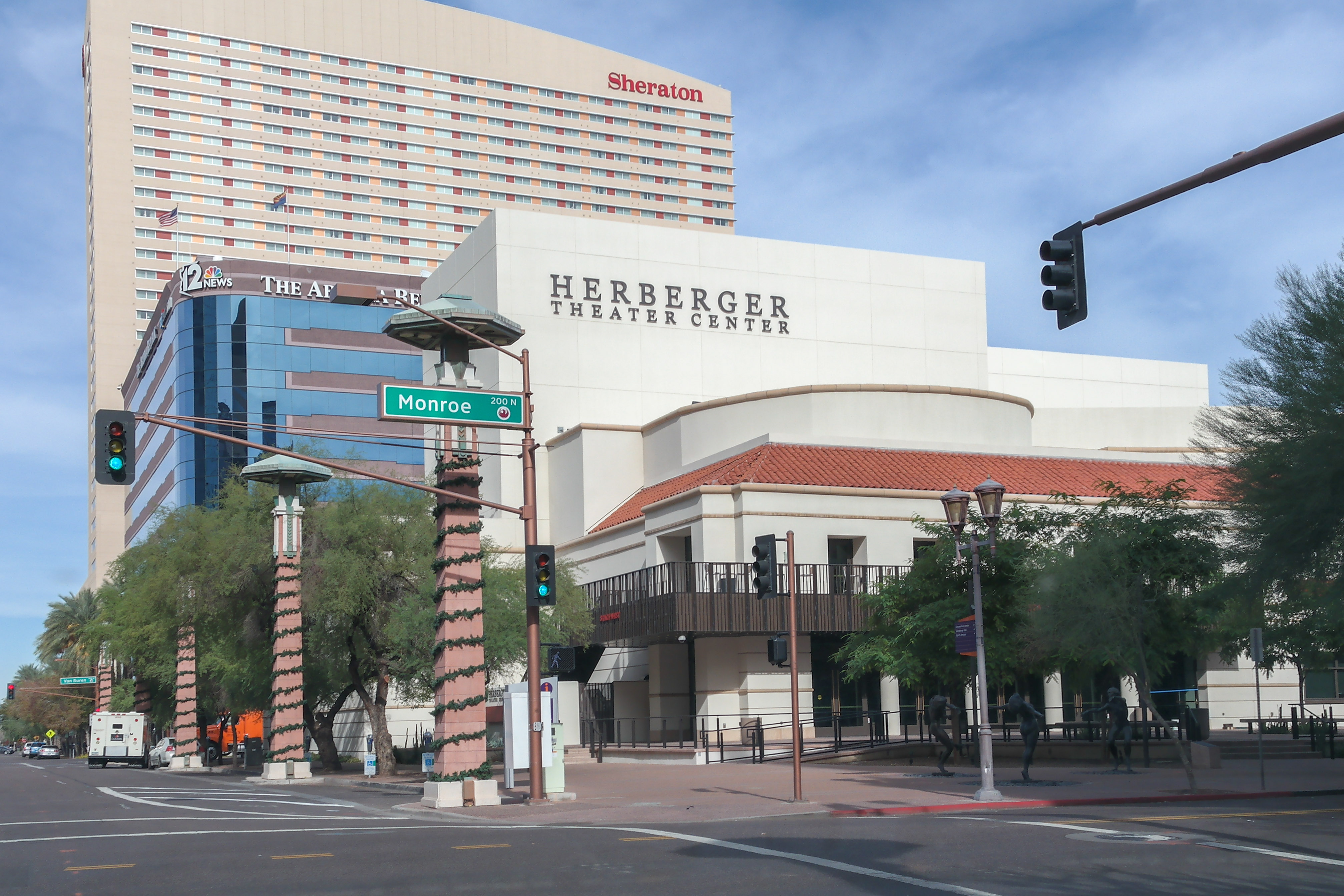 A view of the Herberger Theater Center in Phoenix, Arizona